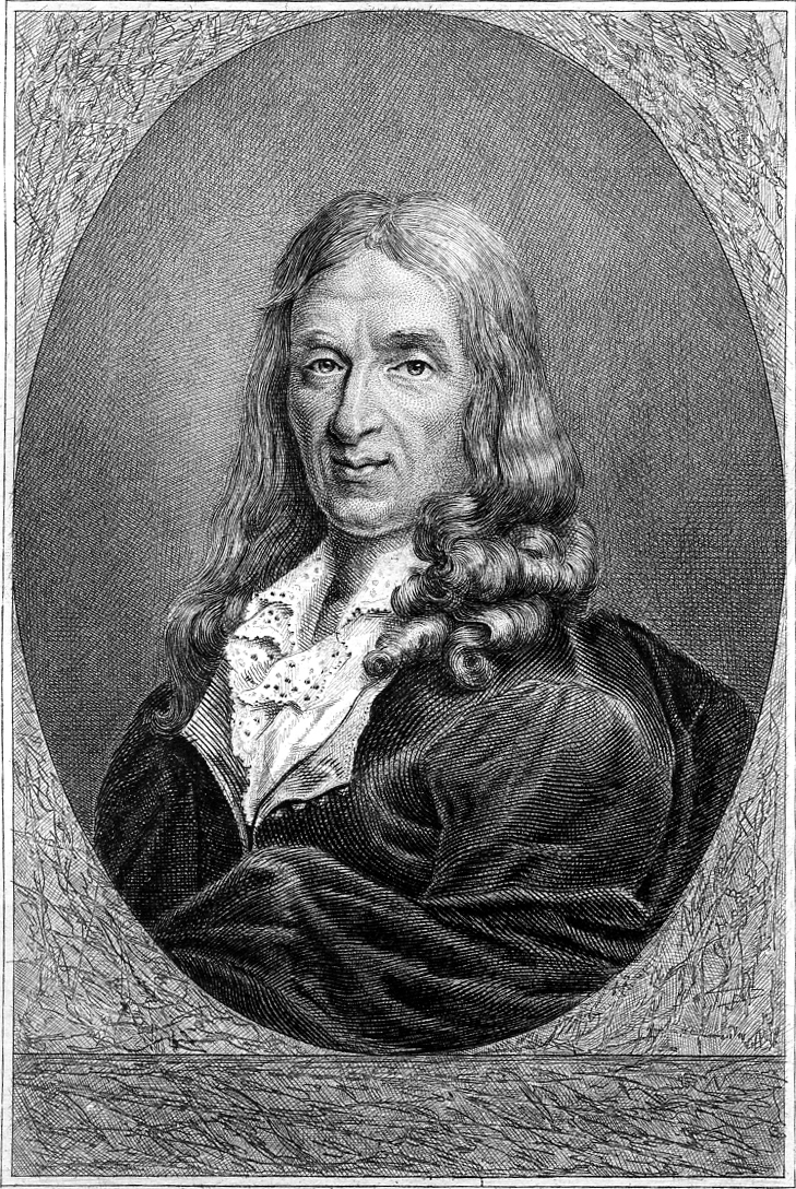 Thomas Corneille (1625-1709), French dramatist.